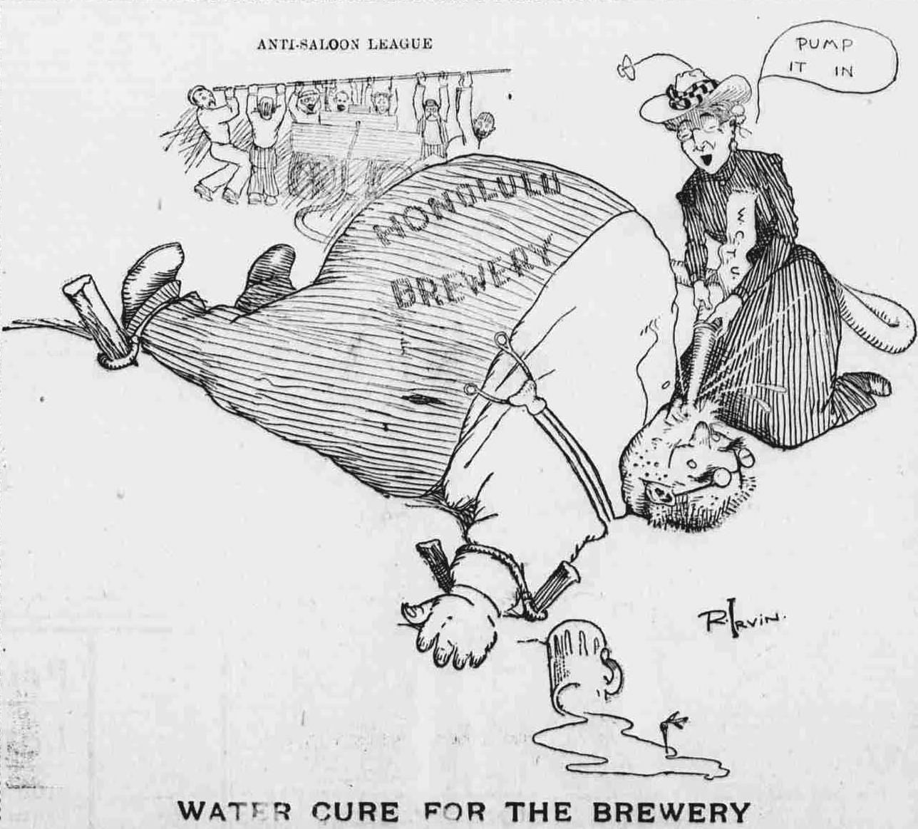 The Hawaiian Gazette's political cartoons humorously illustrated local issues. This illustration makes fun of the Anti-Saloon League and the Women's Christian Temperance Union's campaign against the producers and sellers of beers in Hawaii Caption: "Water cure for the brewery" "Water Cure for the Brewery" The Hawaiian Gazette, May 23, 1902, Image 1 Text from the accompanying article: "The Anti-Saloon League and the Women's Christian Temperance Union have joined hands in the movement against the Honolulu brewery and the saloons operating under licenses to dispose of its product. At the regular monthly meeting yesterday afternoon of the W. C. T. U. several of the officers of the league were present and made stirring addresses on the subject, urging the women to strike at the brewery while the time was ripe and to prevent, if possible, the reenactment of the license under which the brewery is now operating. At the conclusion of the joint proceedings the women of the union promised to put their shoulders to the wheel and make an active campaign against the makers and sellers of beer." "Against Brewery: Anti-Saloon League and W.C.T.U. Unite for Action" Rea Irvin, May 23, 1902, Page 3, Image 3 From the University of Hawaii at Manoa Library